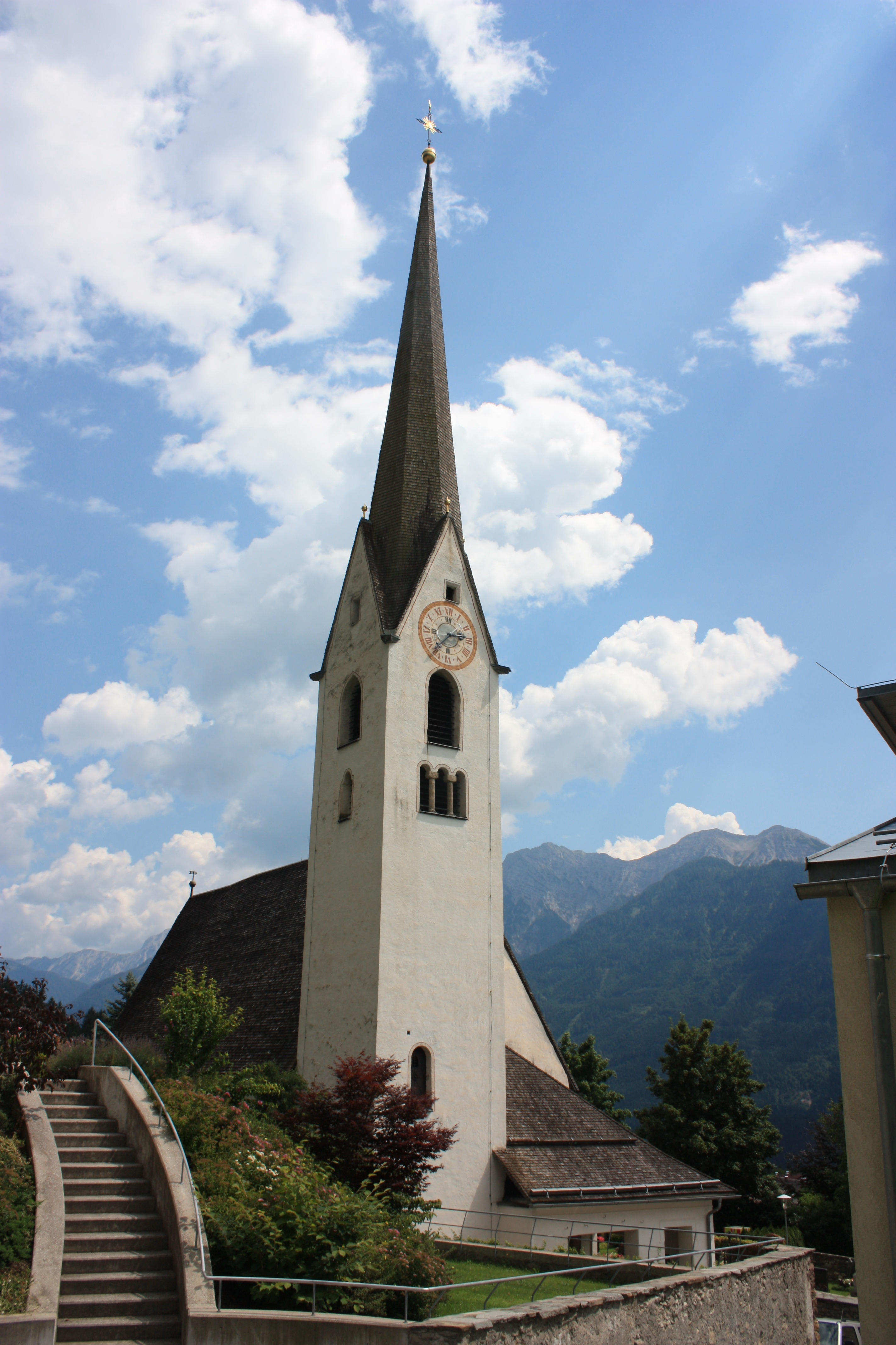 Parish church Irschen